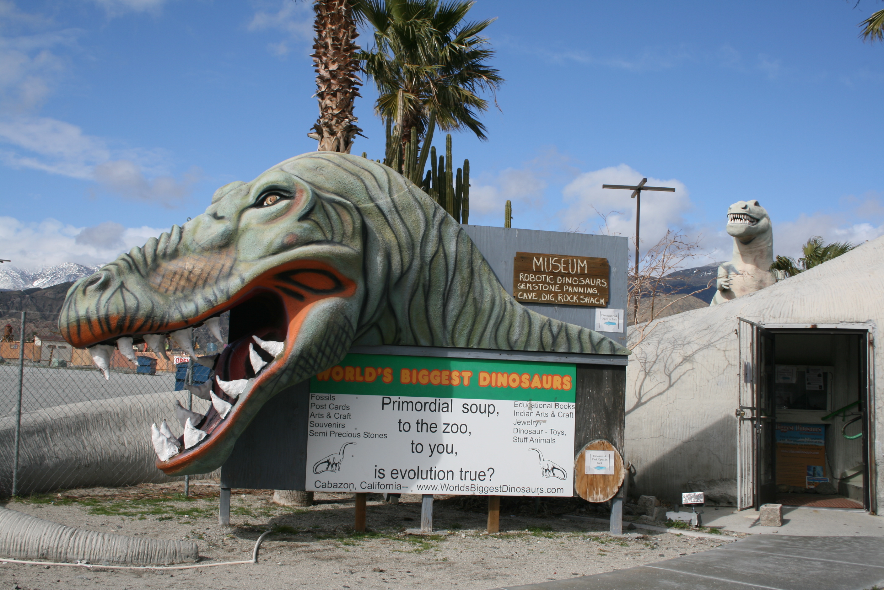 Entrance to the creationist museum at Cabazon Dinosaurs in Cabazon, California.